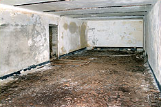 Operation Tracer, also known as Stay Behind Cave, in Gibraltar. Main room.